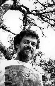 Terence Kemp McKenna